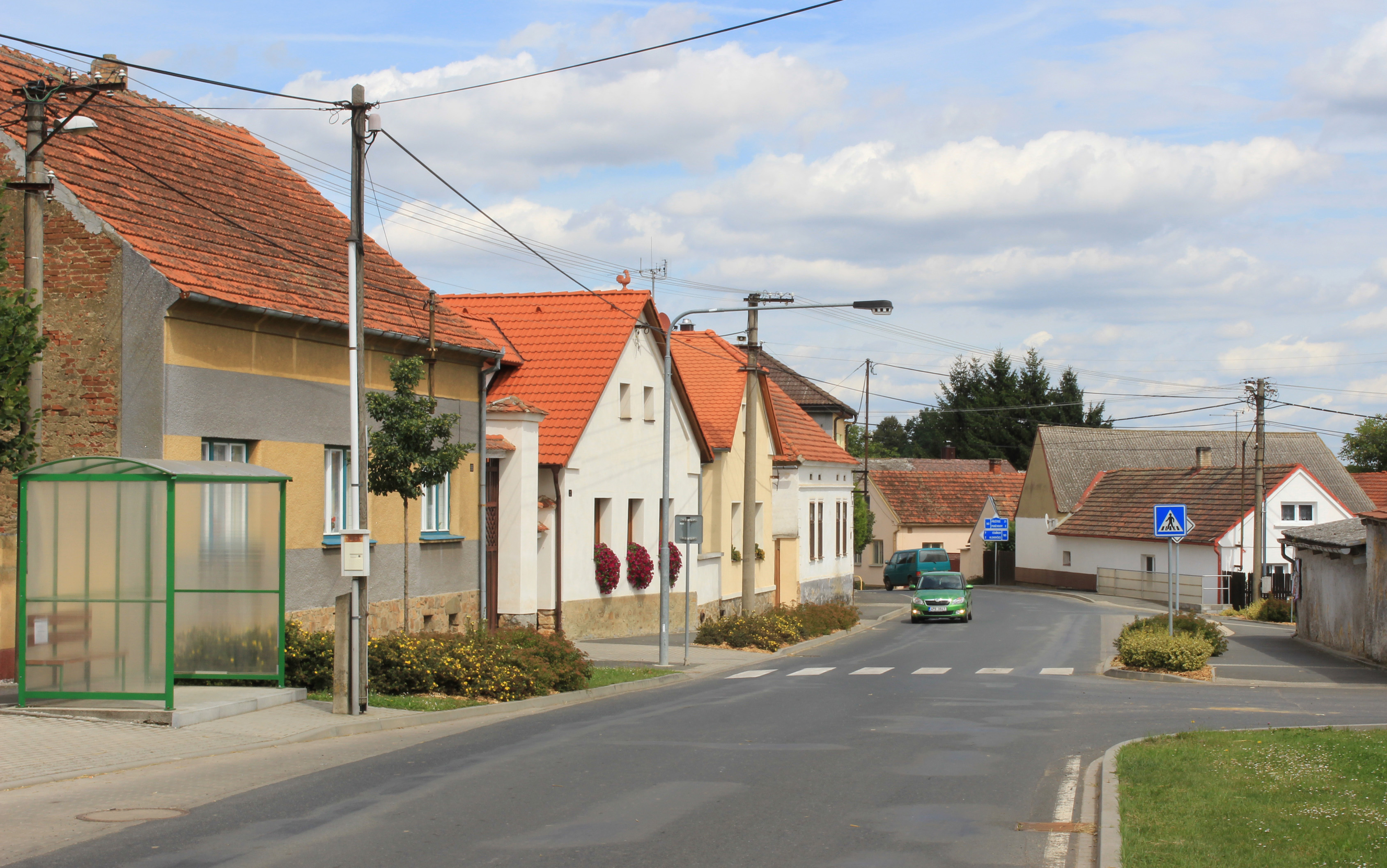 Road No. 183 in Srbice, Czech Republic.